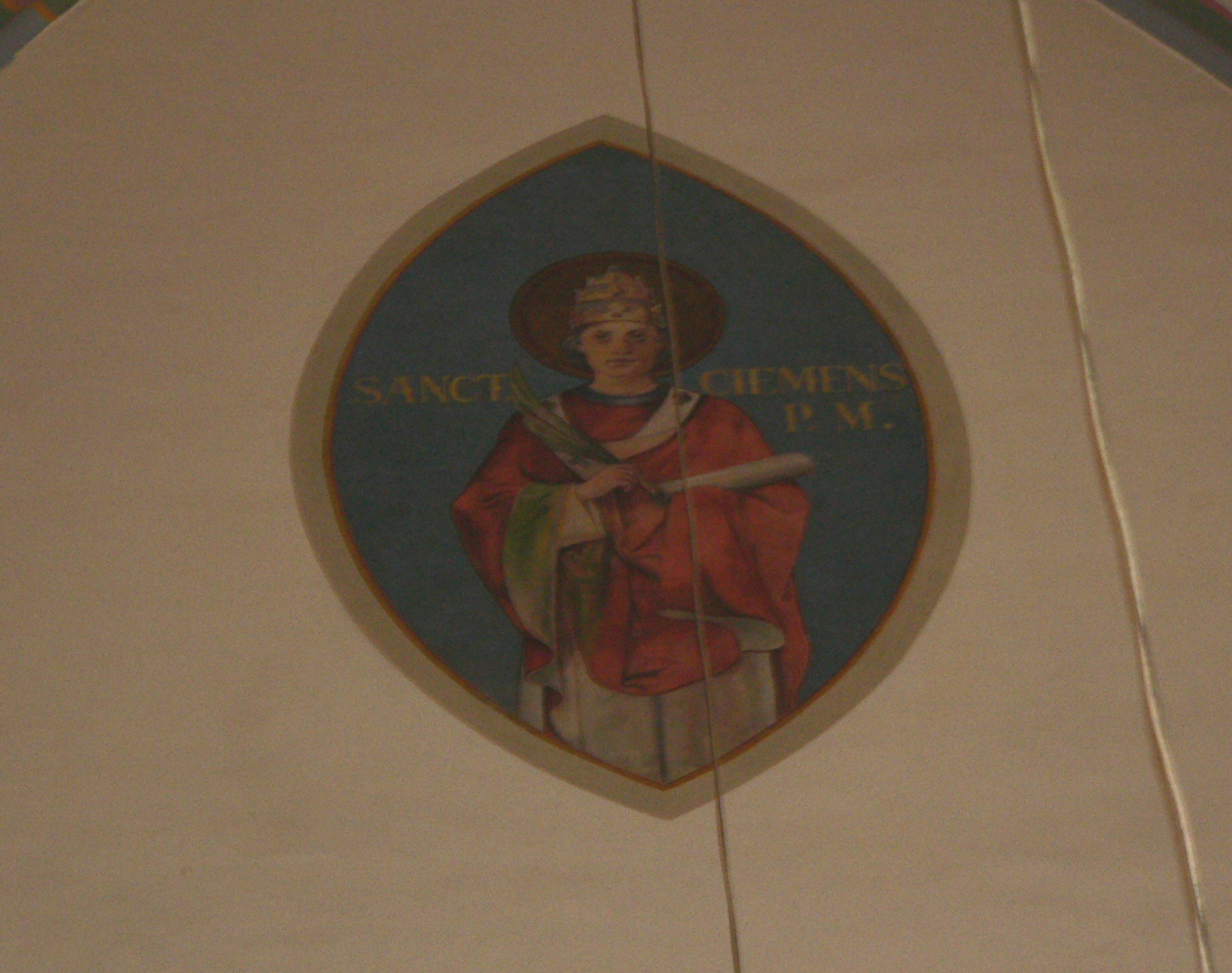 paint in Cathedral of the Holy Spirit Hradec Králové